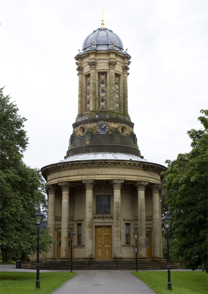 Saltaire United Reformed Church The Church was built by Sir Titus Salt in 1859 to serve his staff who worked at the Mill within the village of Saltaire, now a world heritage site.